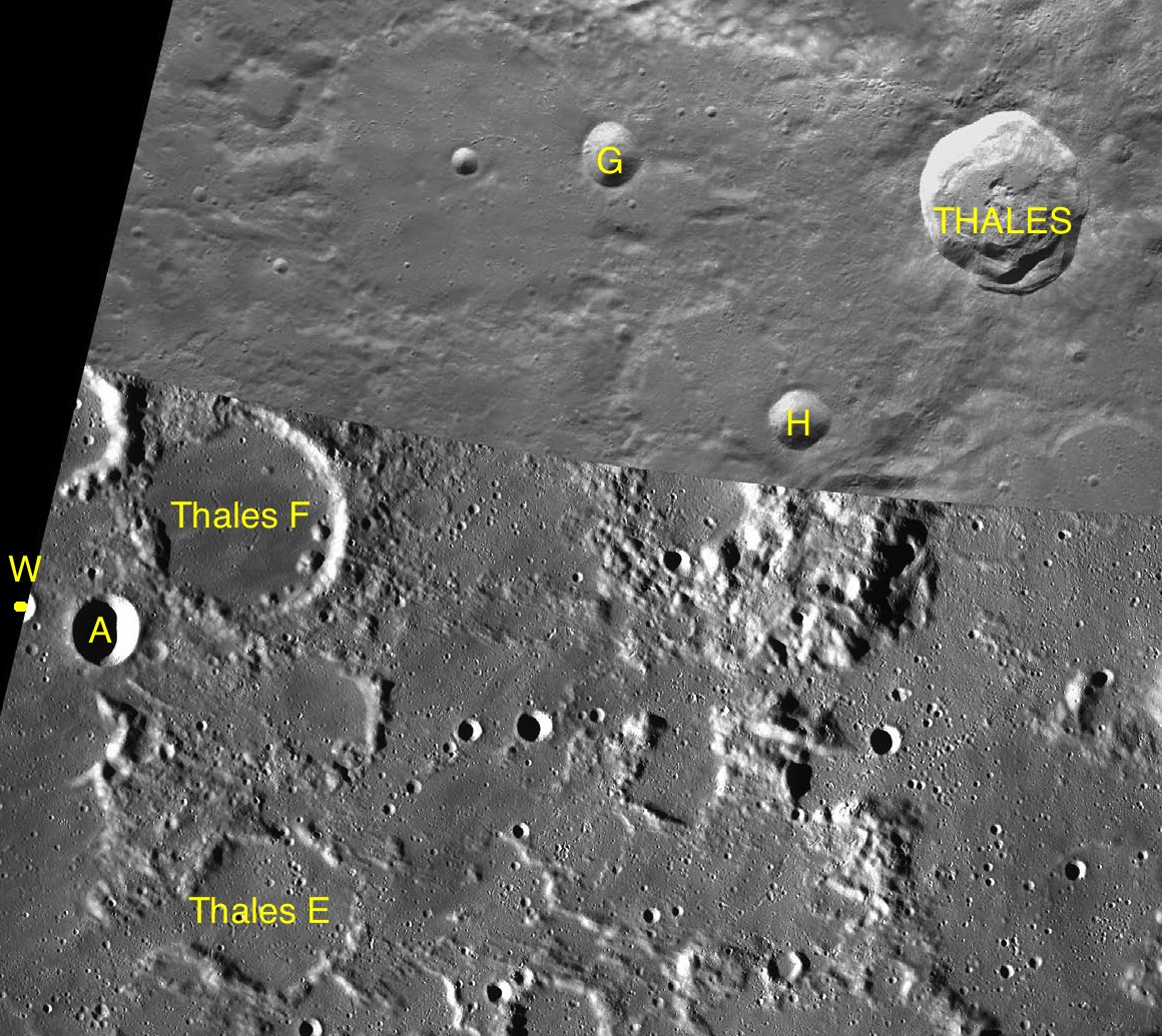 Part of the chart LAC-14 used for the presentation